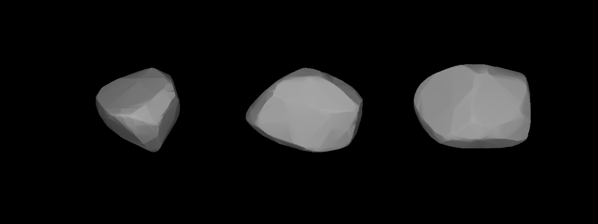 A three-dimensional model of 803 Picka that was computed using light curve inversion techniques.